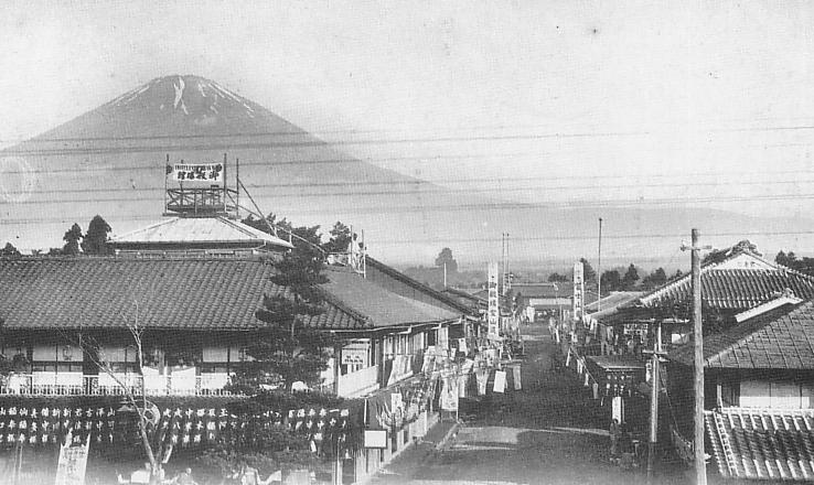 Gotemba downtown before 1945